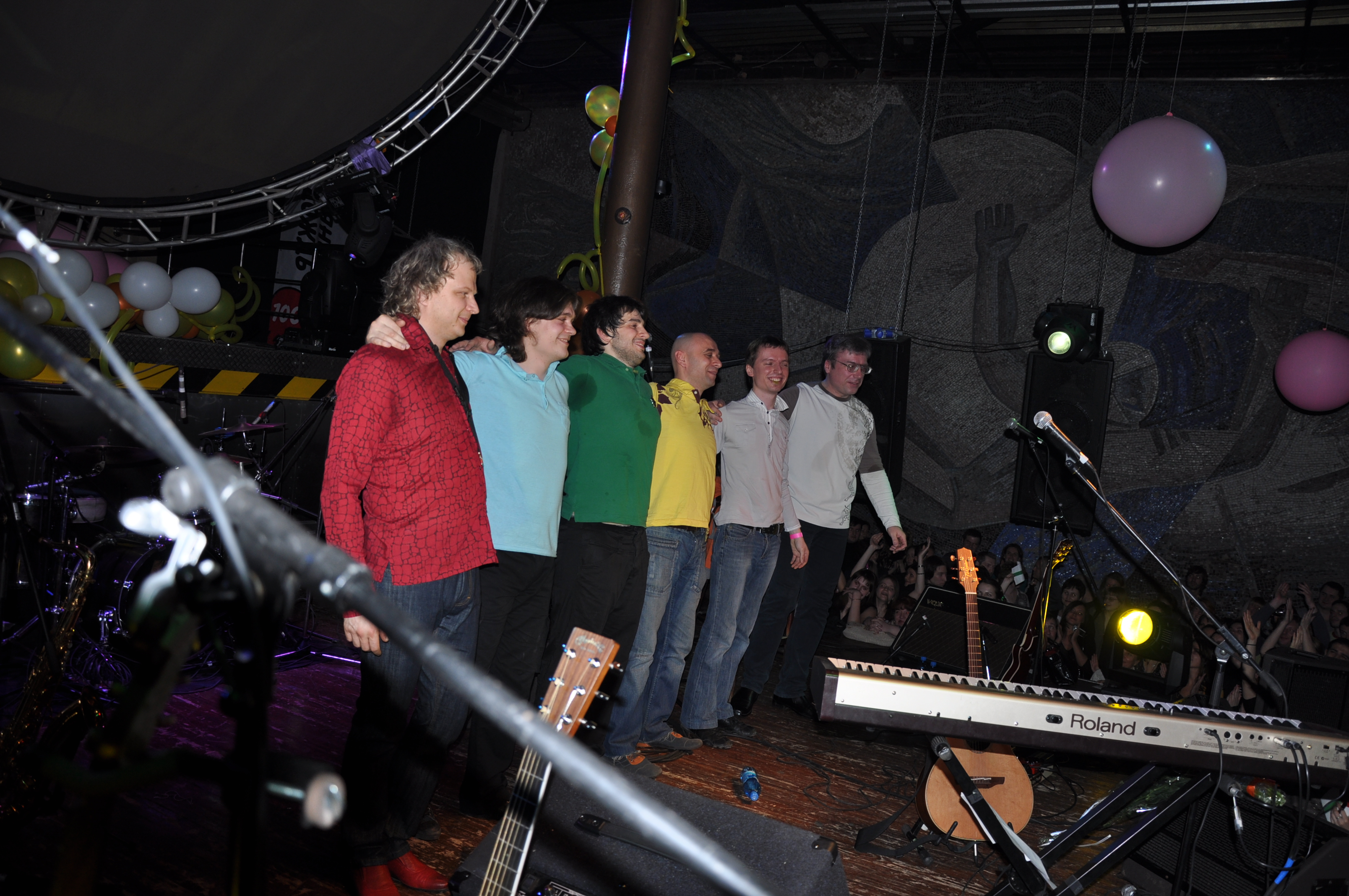 Peter Nalitch's band.